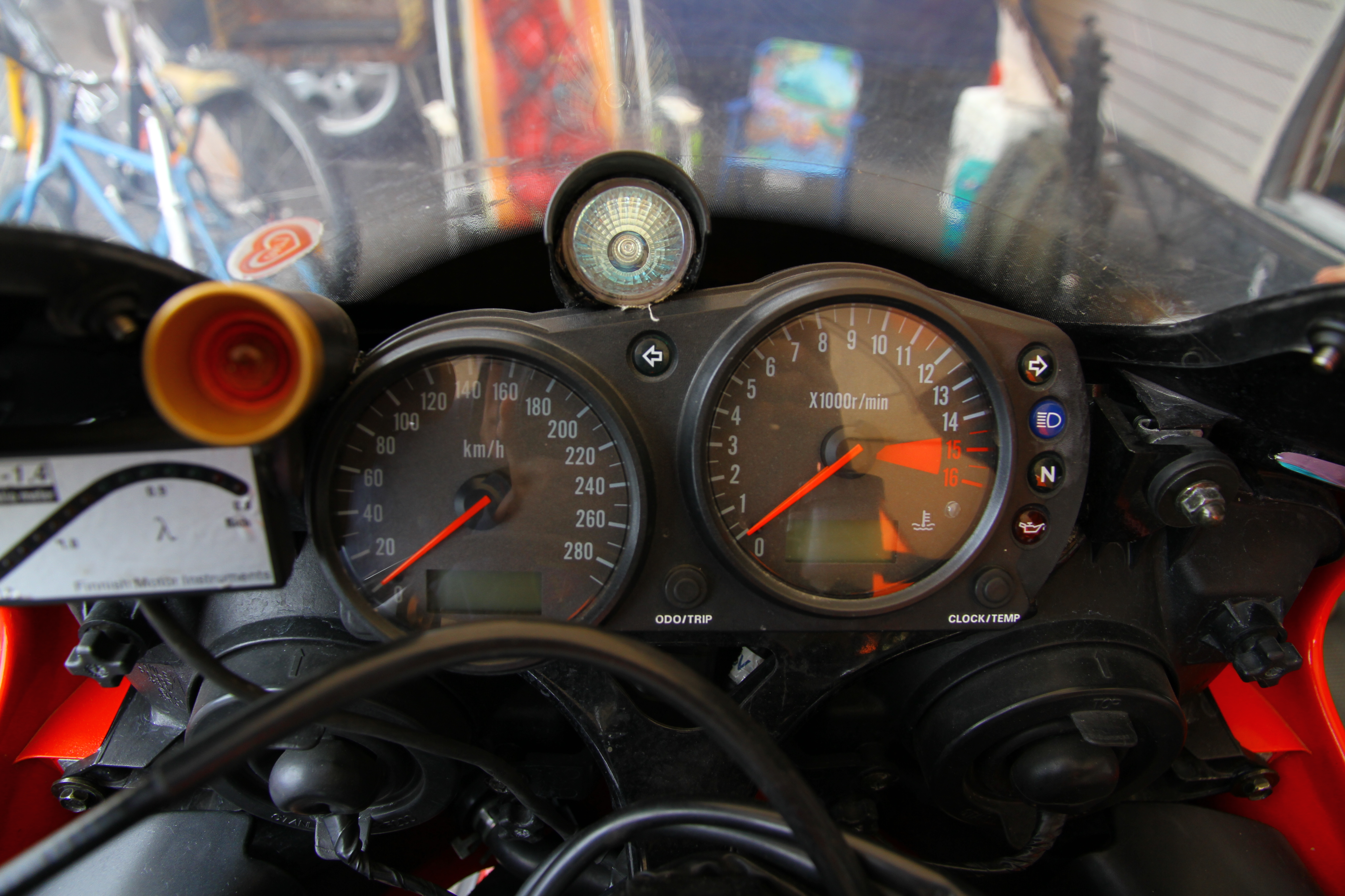 FHRA Kamasa Drag Race Week at Alastaro Circuit, Finland.